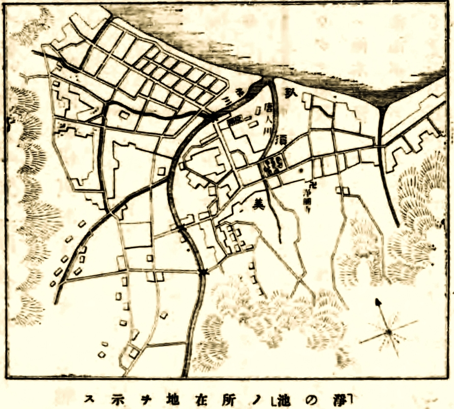 Jono-ike pond research report attached map